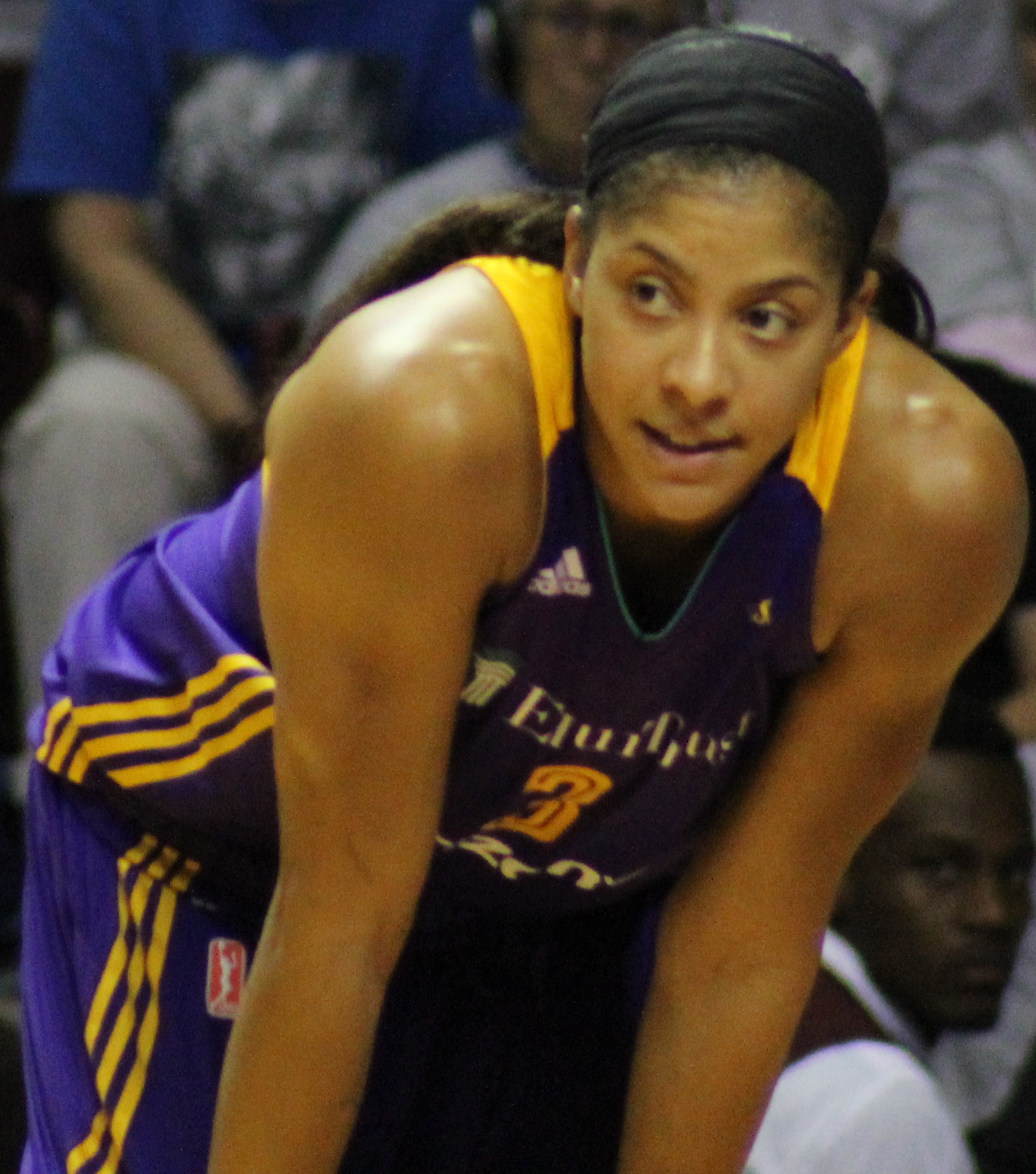 Candace Parker of the Los Angeles Sparks during the 2017 WNBA Finals